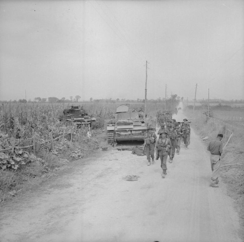 The British Army in Italy 1943 Infantry pass two knocked-out German PzKpfw III tanks on the main road near Fasanara, 9 September 1943.